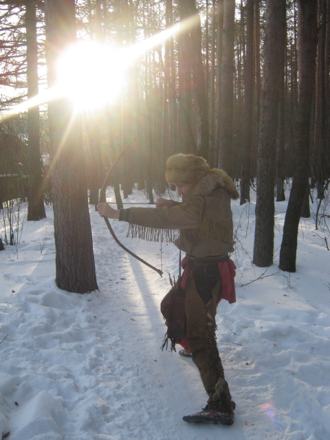 Bashkir from clan of Teleu